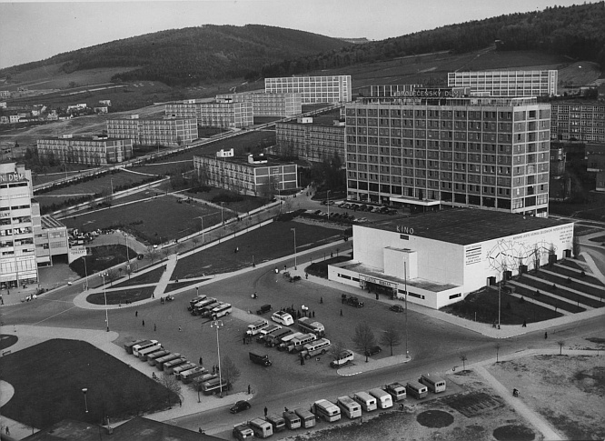 Bata Corporate Town in Zlin (Czech Republic, former Czechoslovakia)